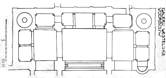 Floorplan of the galery level of the westwork of the Basilica of Saint Servatius in Maastricht, the Netherlands. The plan is based on a file donated to Wikimedia by Rijksdienst voor het Cultureel Erfgoed on 7 January 2013.